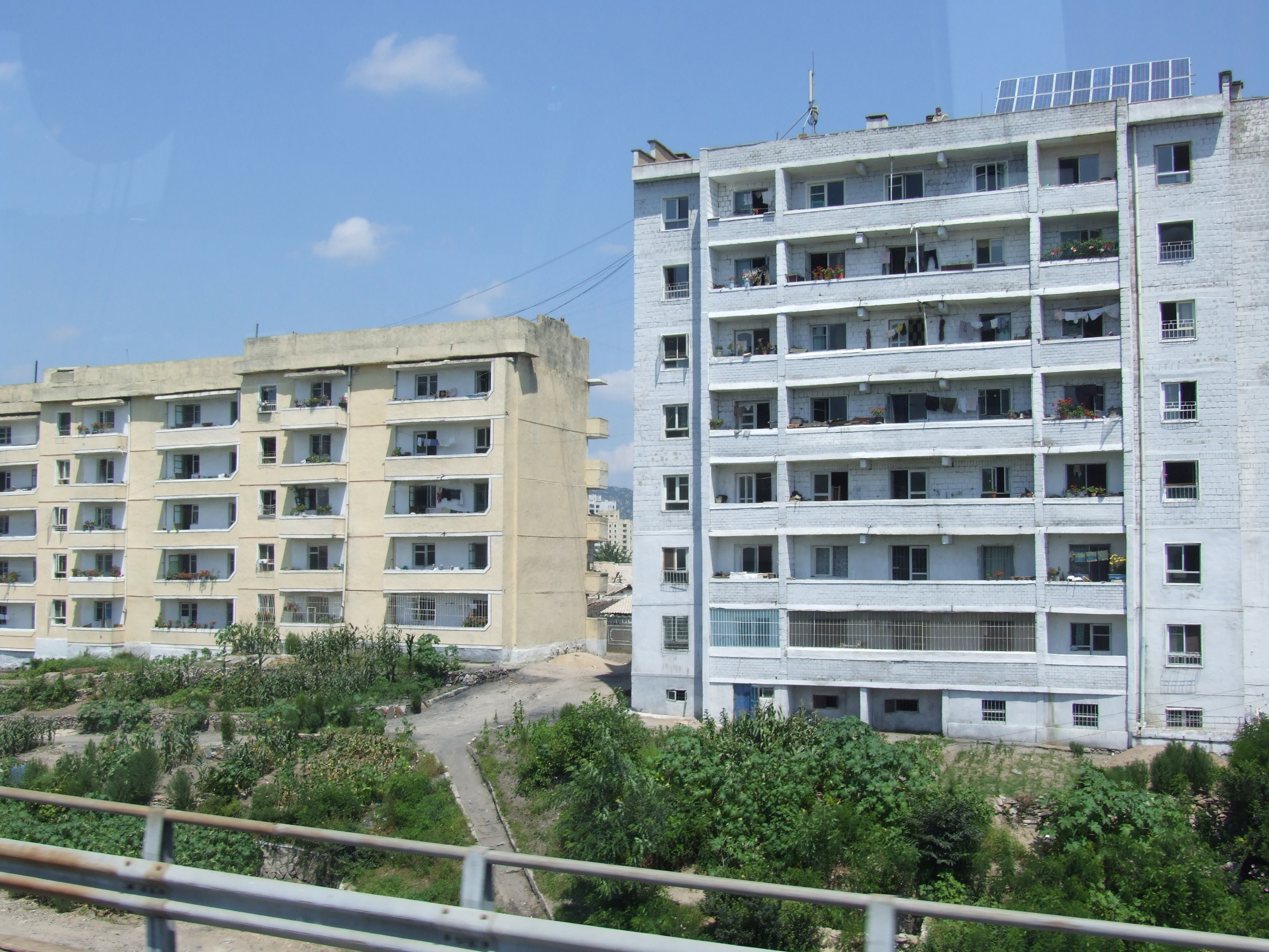 Street in Kaesong